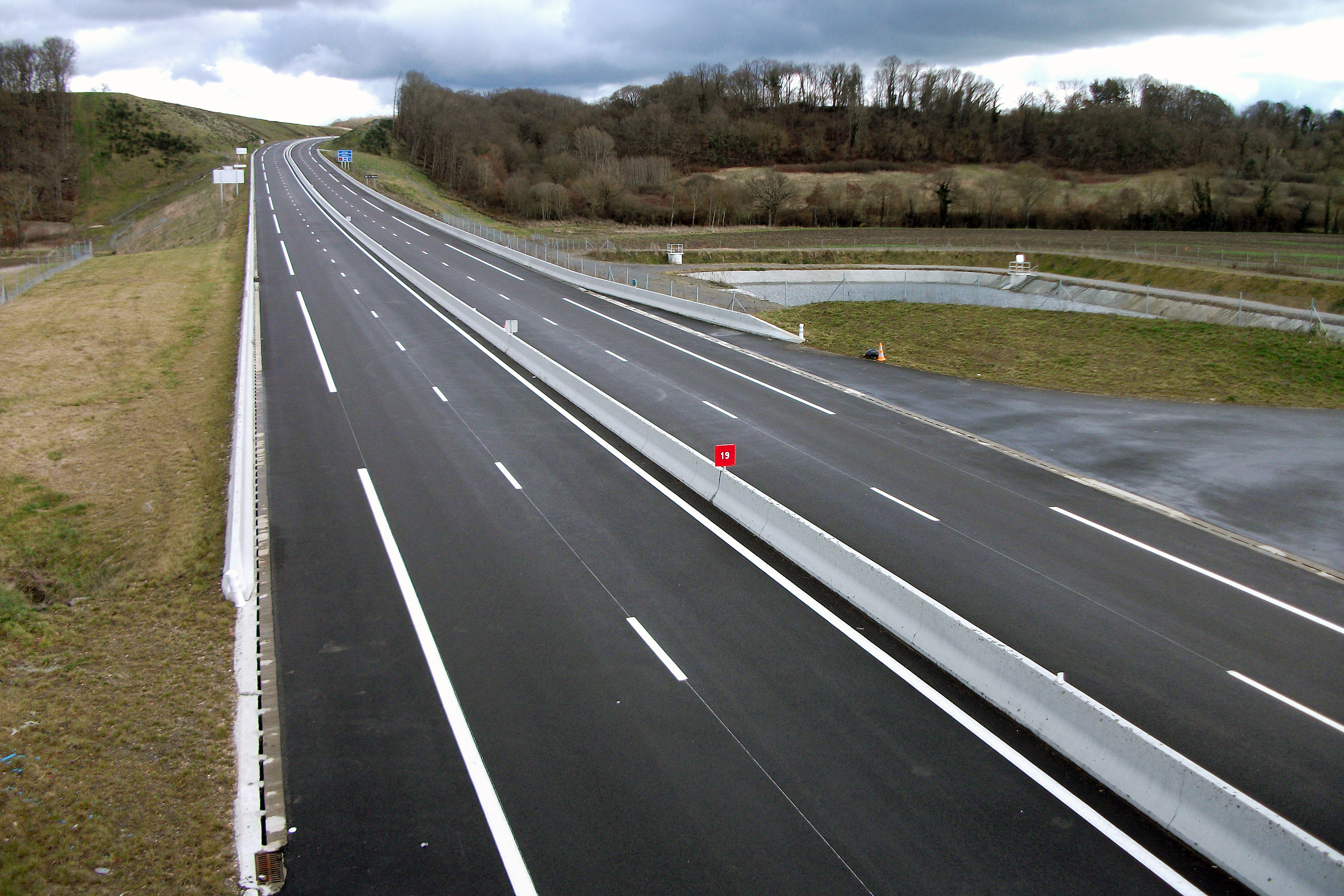 A719 autoroute, direction Vichy toll booth, from the bridge of the departmental road 279 in Vendat [10188]